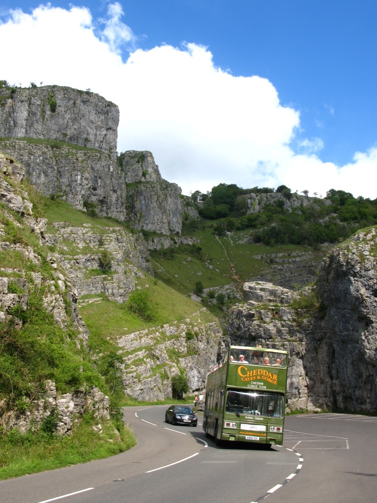 Cheddar Gorge Tour bus (reg. A860 SUL) climbs Cheddar Gorge near the Lion Rock. The tour is operated by Longleat Estates who operate many of the attractions in the gorge.